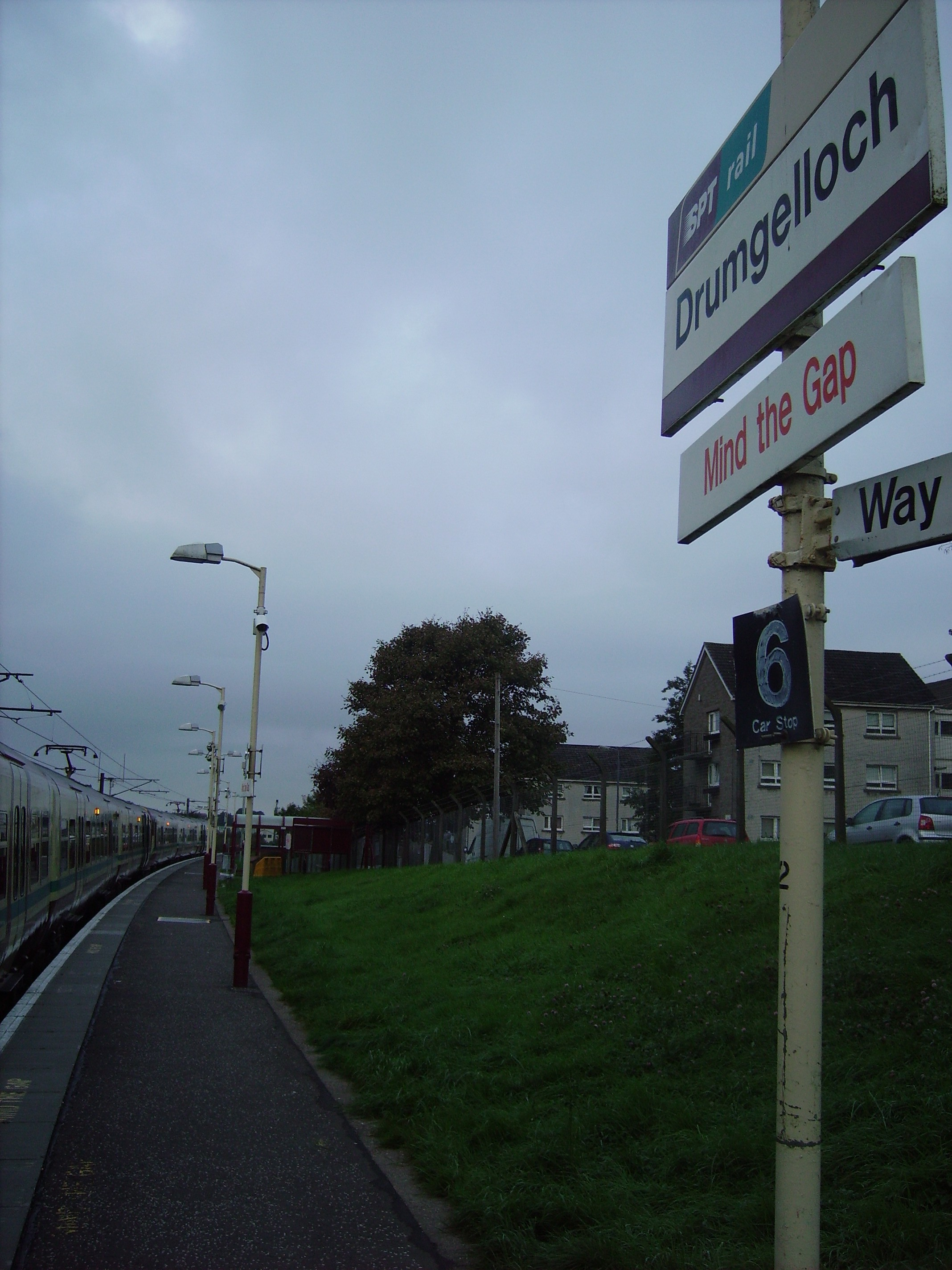 My photo - Big Jim Fae Scotland